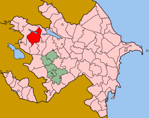 Map of Azerbaijan showing Shamkir (Şəmkir) rayon.